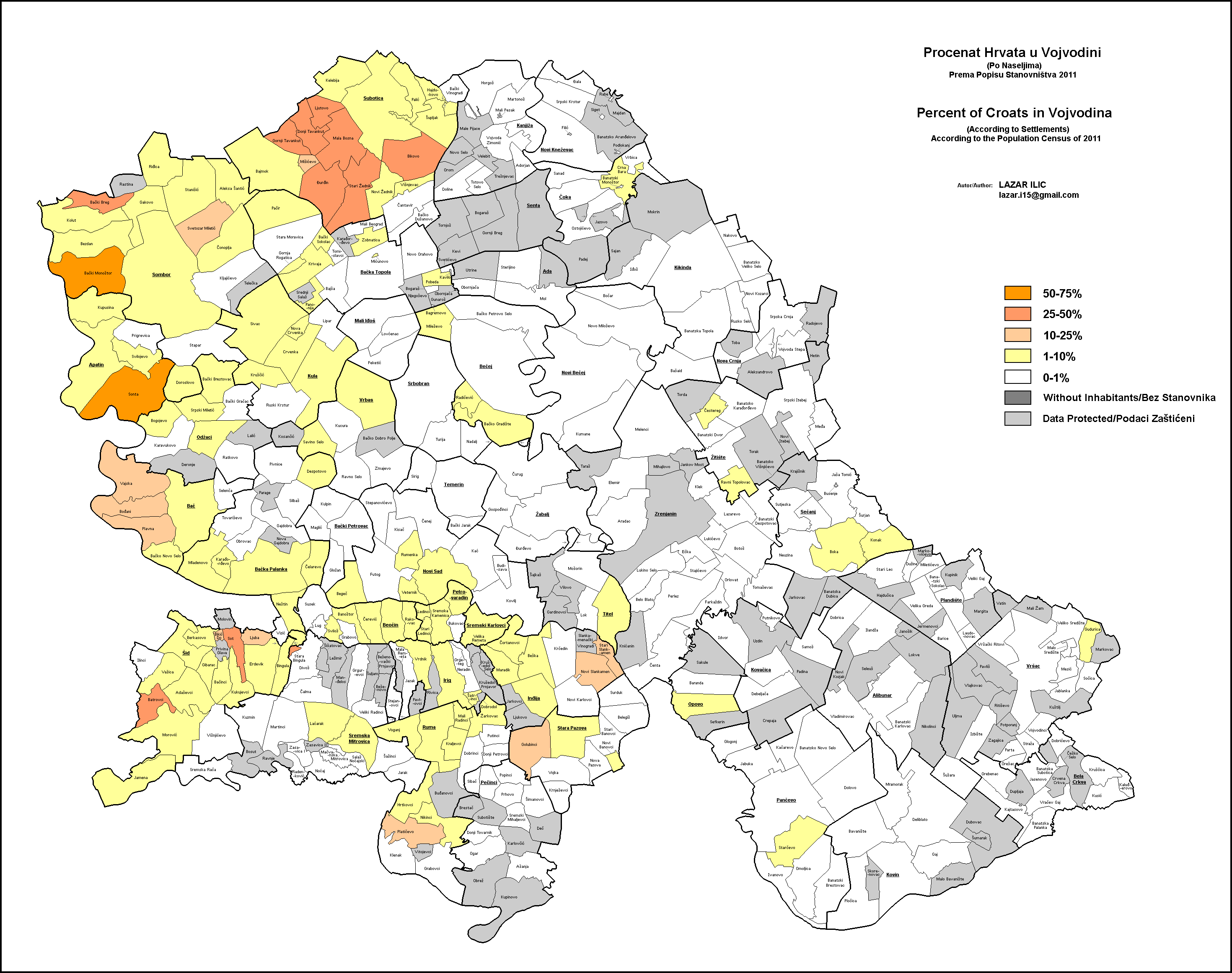 This is an ethnic map of Vojvodina (Northern Serbia) which shows the percent of Croats according to each settlement, according to the 2011 population census.